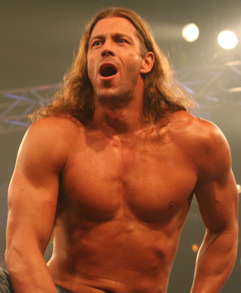 Professional wrestler Stevie Richards in July 2010.